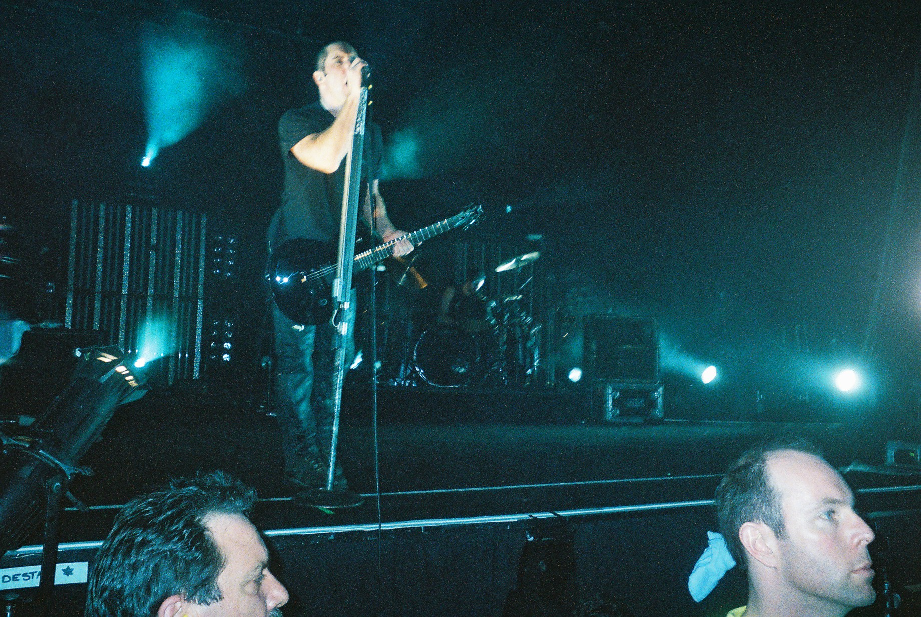 Trent Reznor of Nine Inch Nails. Picture taken using disposable camera from against the front barrier during the With Teeth tour at Rod Laver Arena, Melbourne, Australia in 2005.